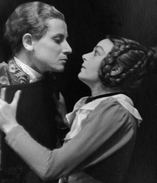 Lotte Berger with Dieter Dorsche in Die Mitschuldigen"